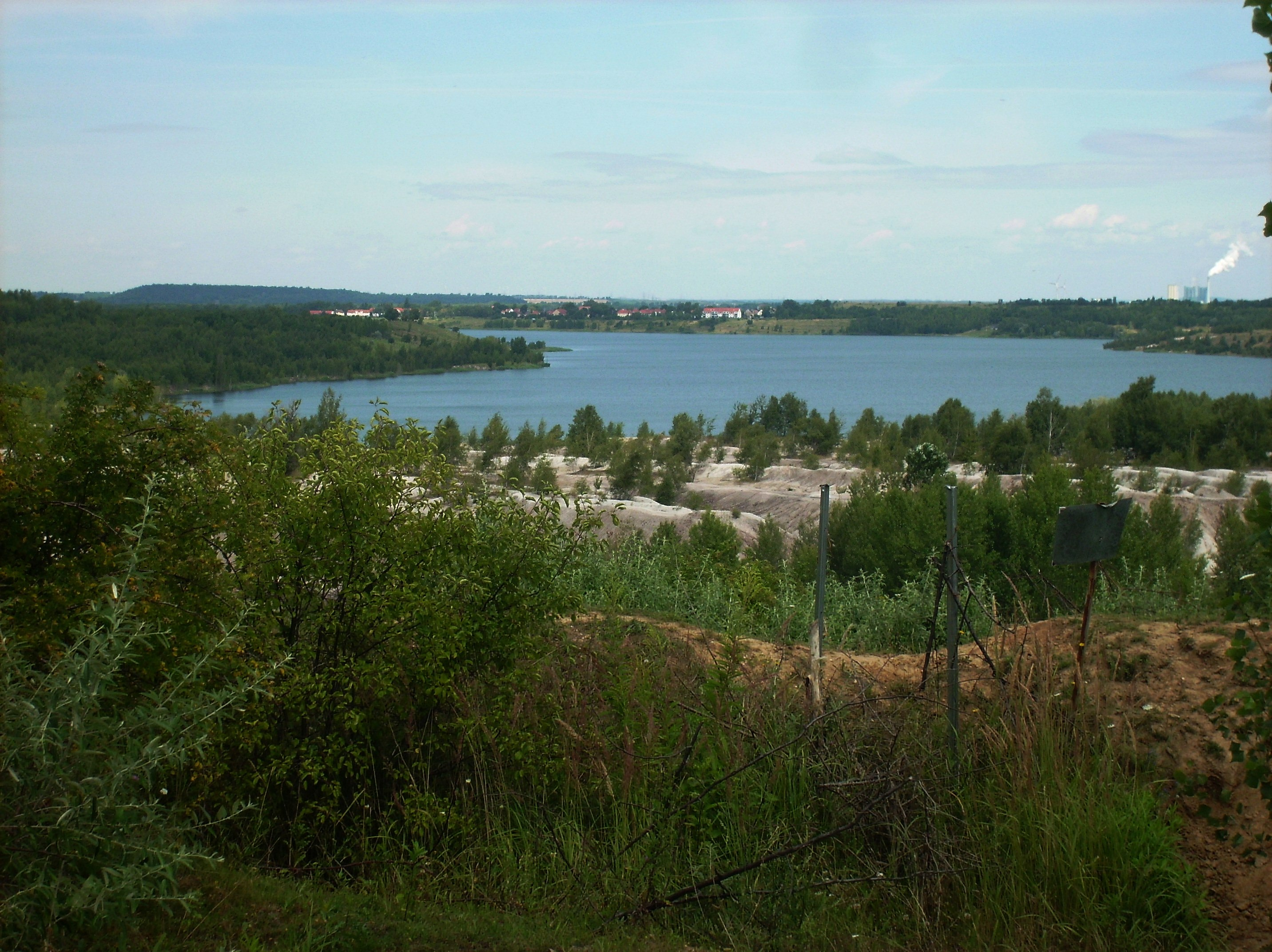 Eastern bay of Grosskayna Lake (Saxony-Anhalt)